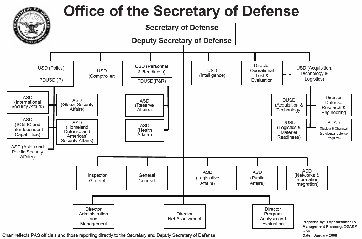 Organization of the Office of the Secretary of Defense